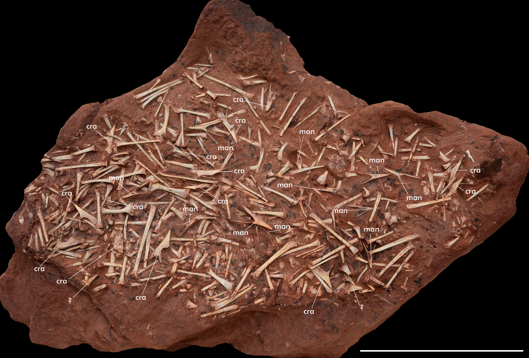 Hundreds of bones, including at least 14 partial skulls of Caiuajara dobruskii (CP.V. 1450). Scale bar equals 200: cra - skulls, man - mandible.